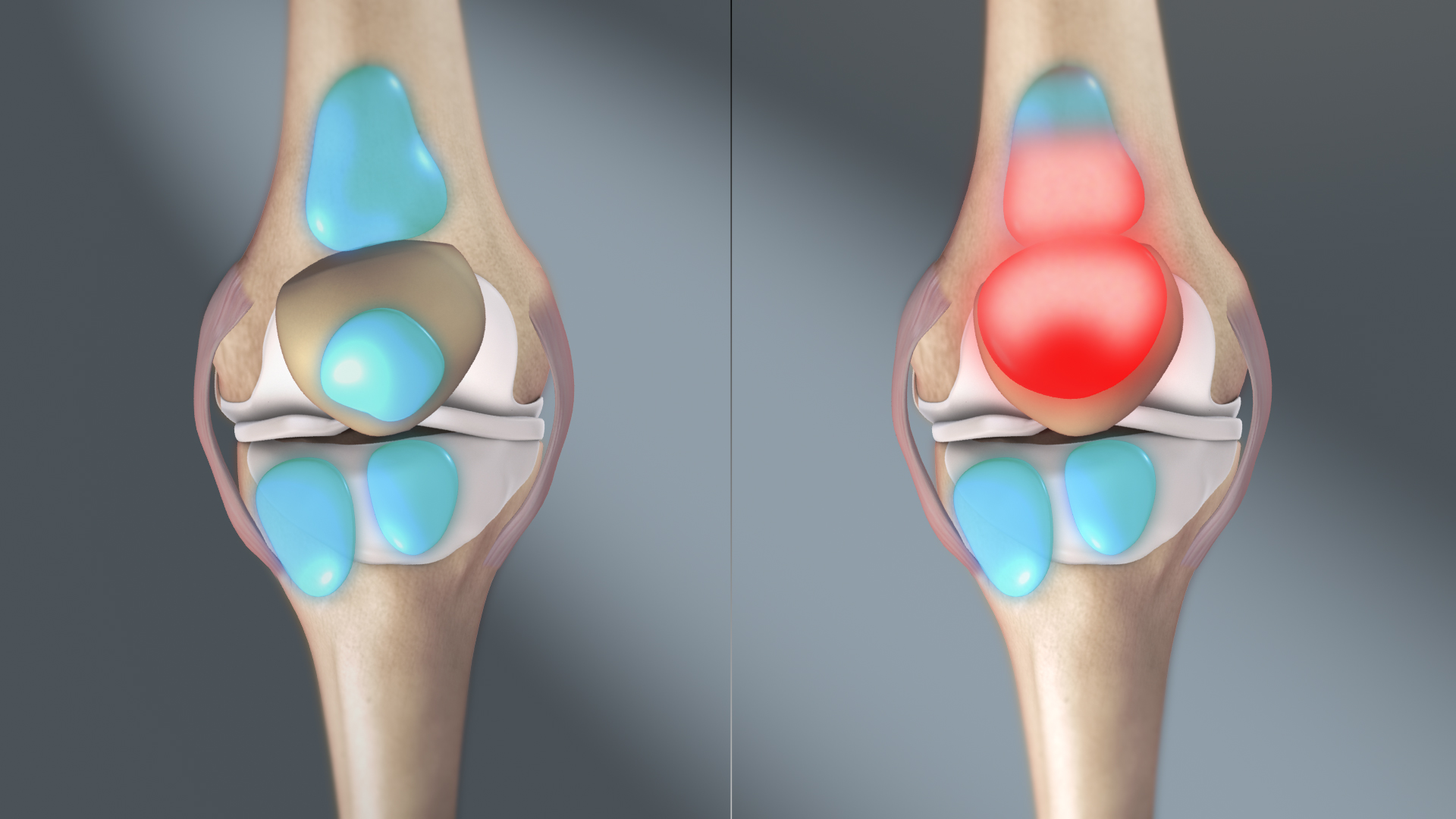 3D medical animation still showing normal bursa(L) and bursa inflammation(R).